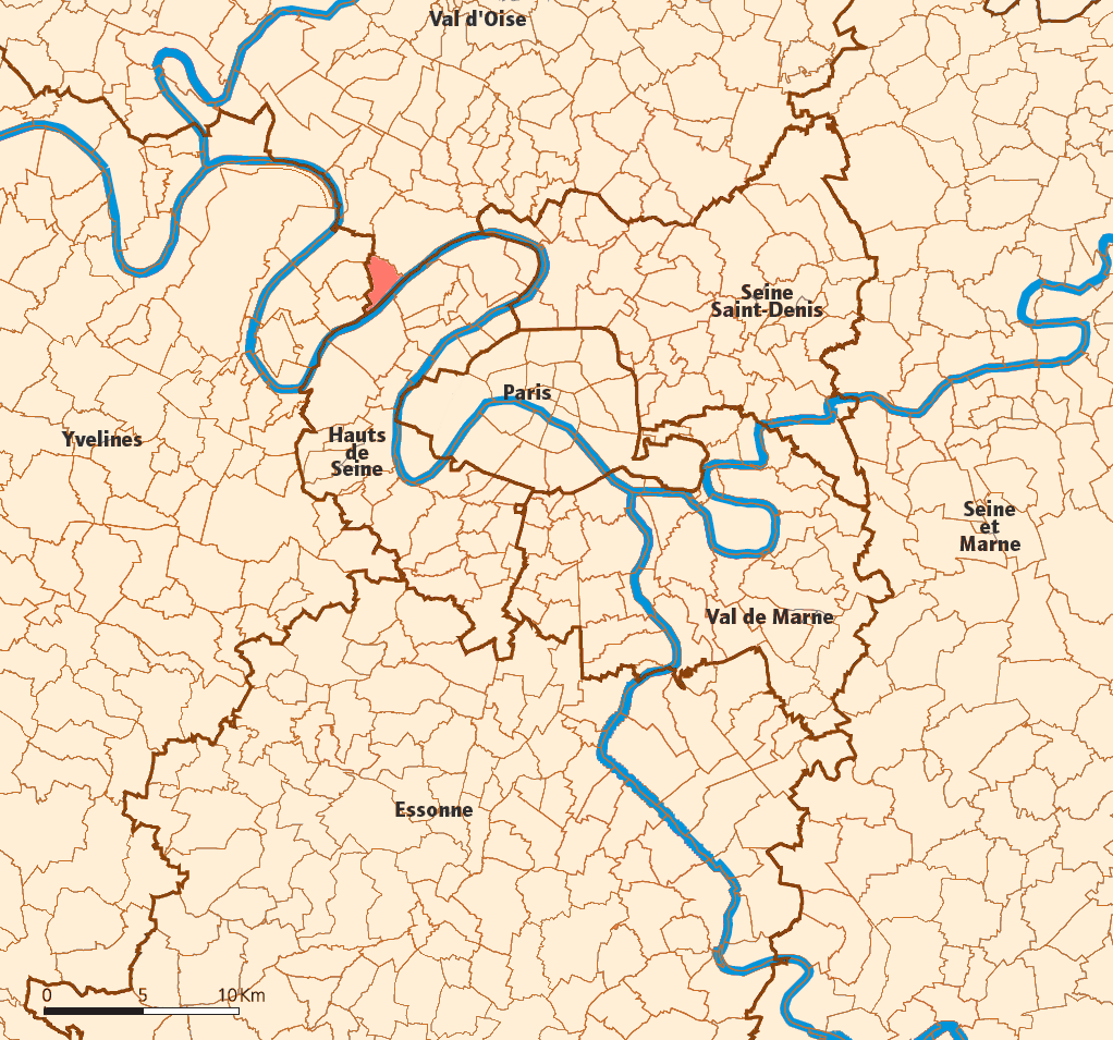 Created map myself.